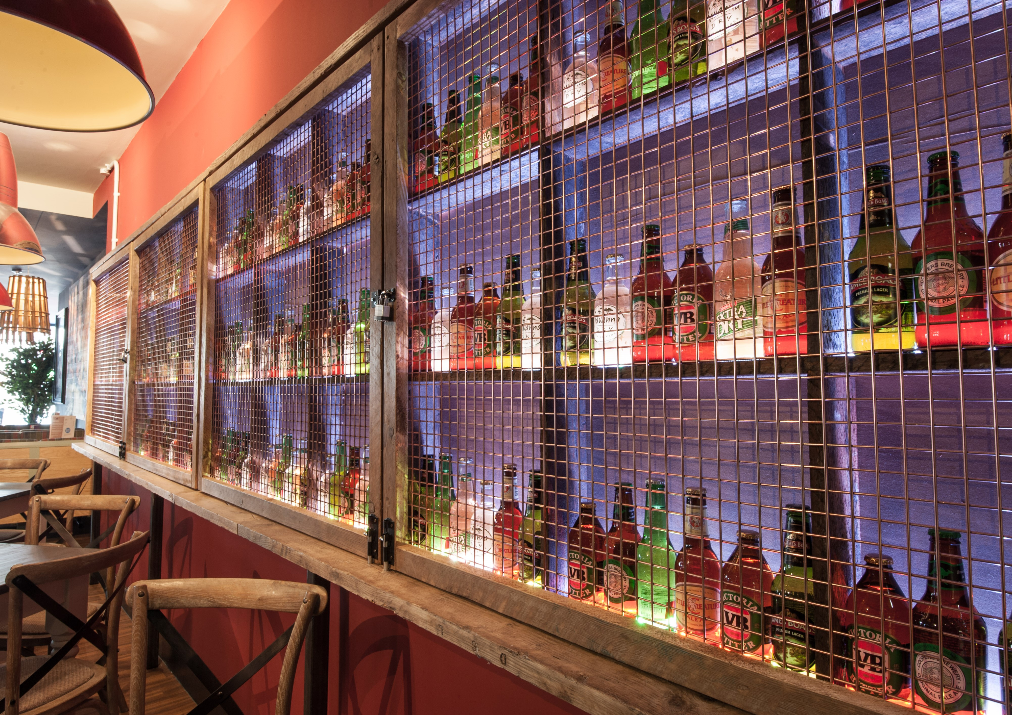 Blackpool Walkabout